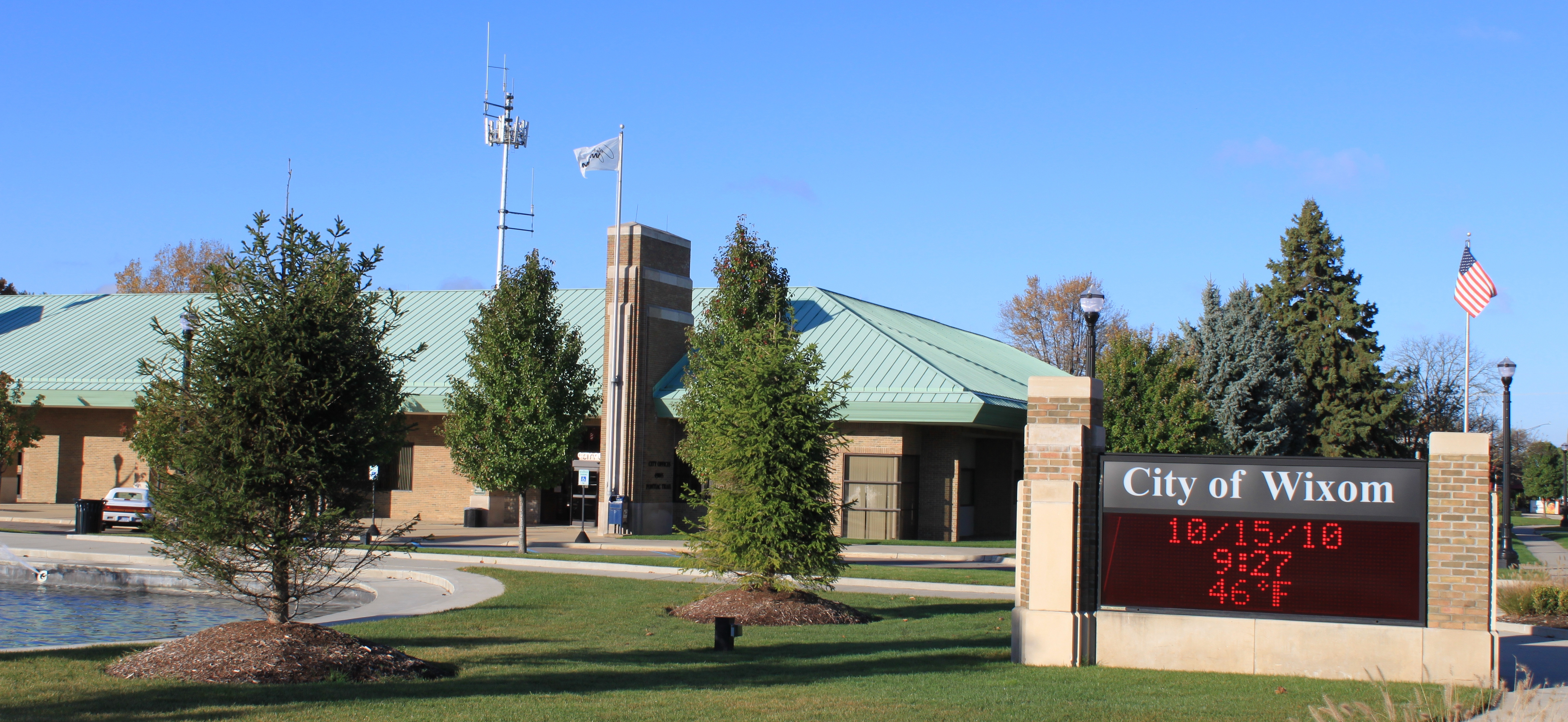 Wixom, Michigan, City Offices, 49045 Pontiac Trail